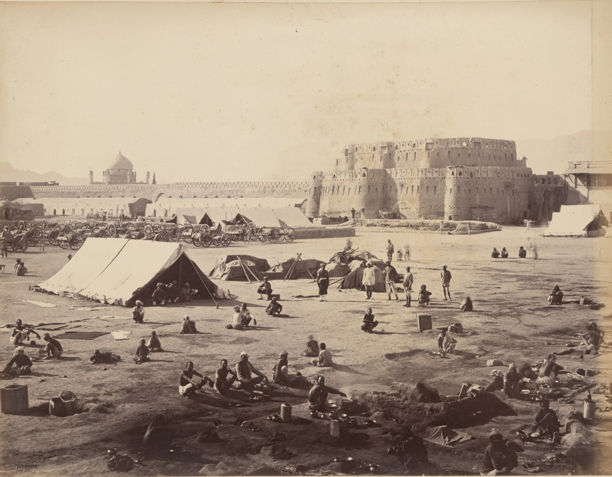 Outside the Kandahar Citadel (locally called "Arg"). The men sitting and standing (and looking at the camera) are mostly camp followers of the British forces from then British India (now Pakistan, India and Bangladesh). The precise location where this photo was snapped is the backside of today's Kandahar Governor House, looking toward the direction of the Baba Saab area in Arghandab. The British military operation was conducted in that area on 1 September 1880 to defend Kandahar from the army of Ayub Khan (son of Sher Ali Khan and cousin of Abdur Rahman Khan), who was supported by then Persia and Russia against British India. Ayub Khan and his army had come from Herat. Based on how the men are dressed, this photo was likely created before or after the 27 July 1880 Battle of Maiwand.